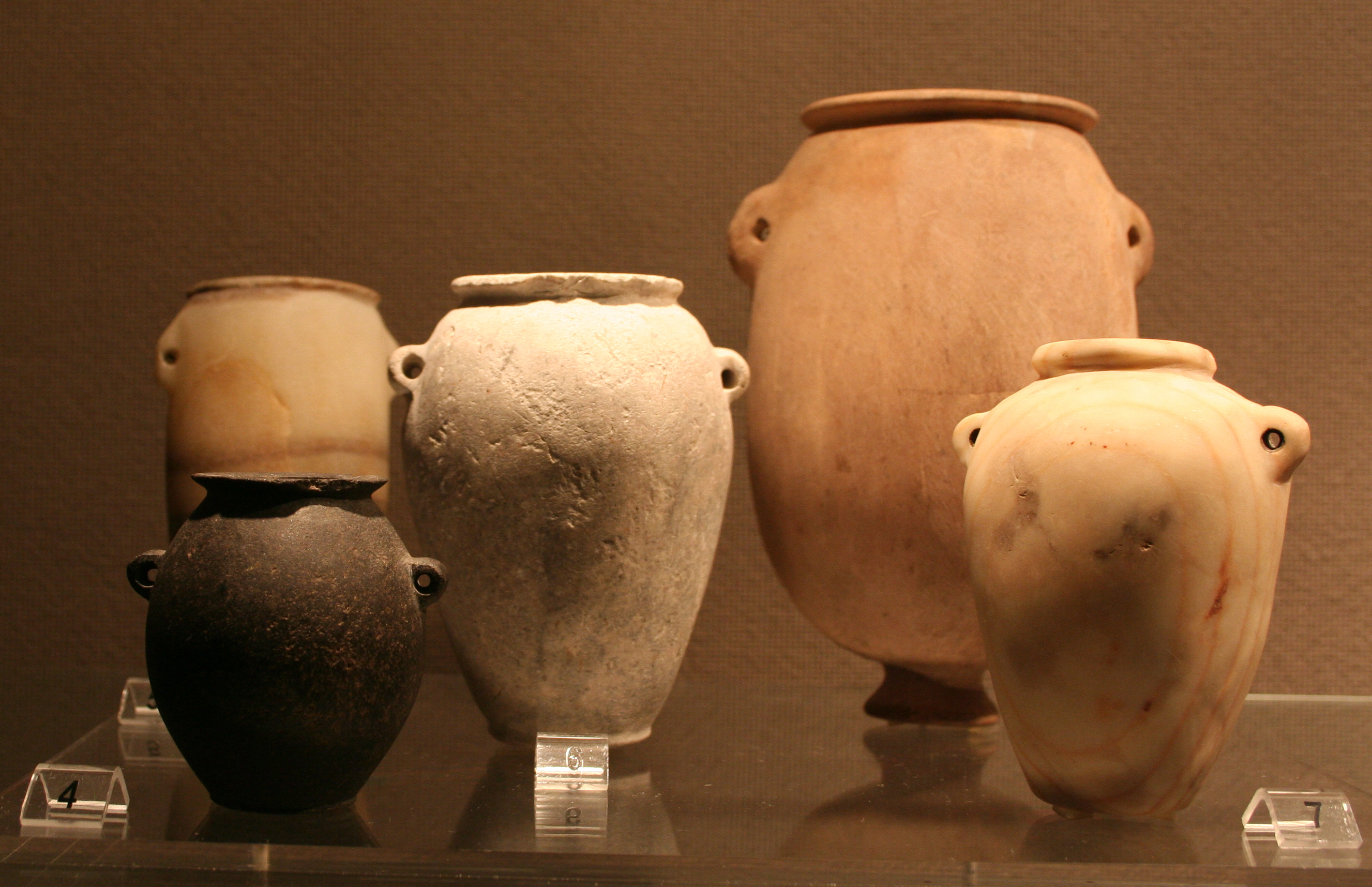 Vessels from the predynastic period (4th millennium BC)